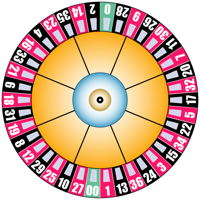 American layout roulette wheel.